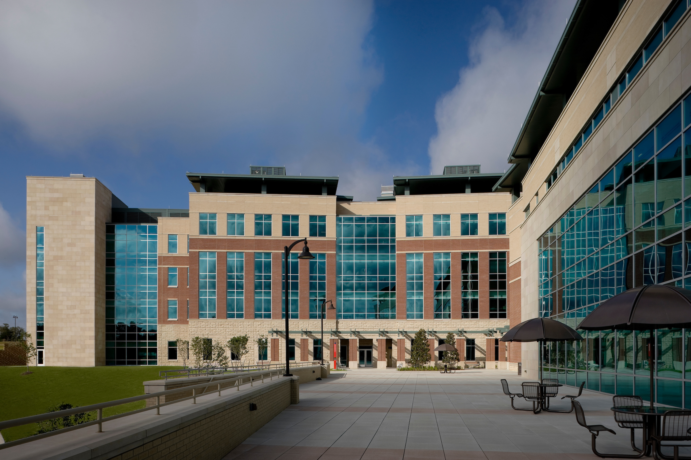 Texas A&M University Health Science Center Bryan Campus